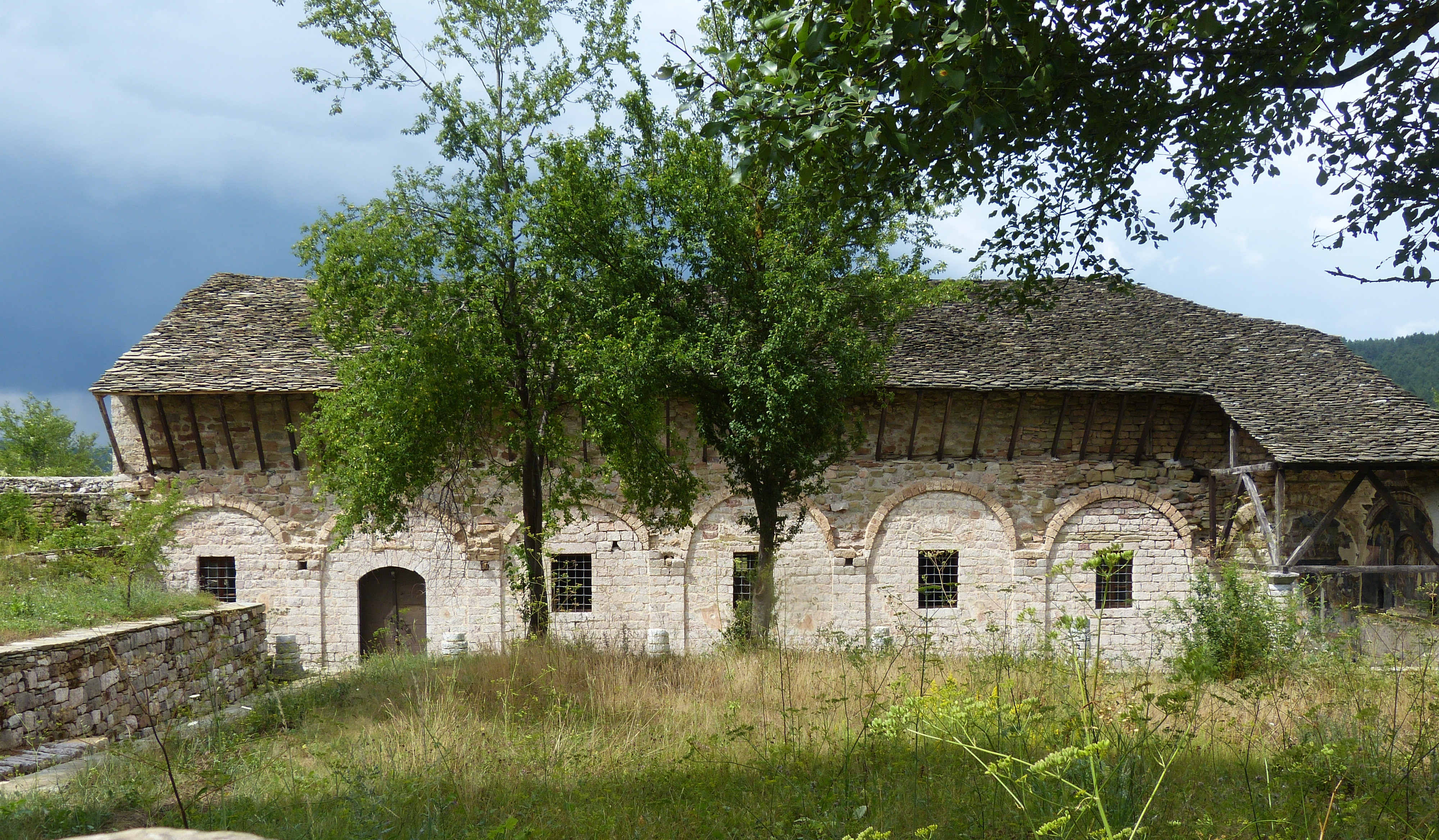 Voskopojë ( Albania ). Saint Mary church ( 1712 )